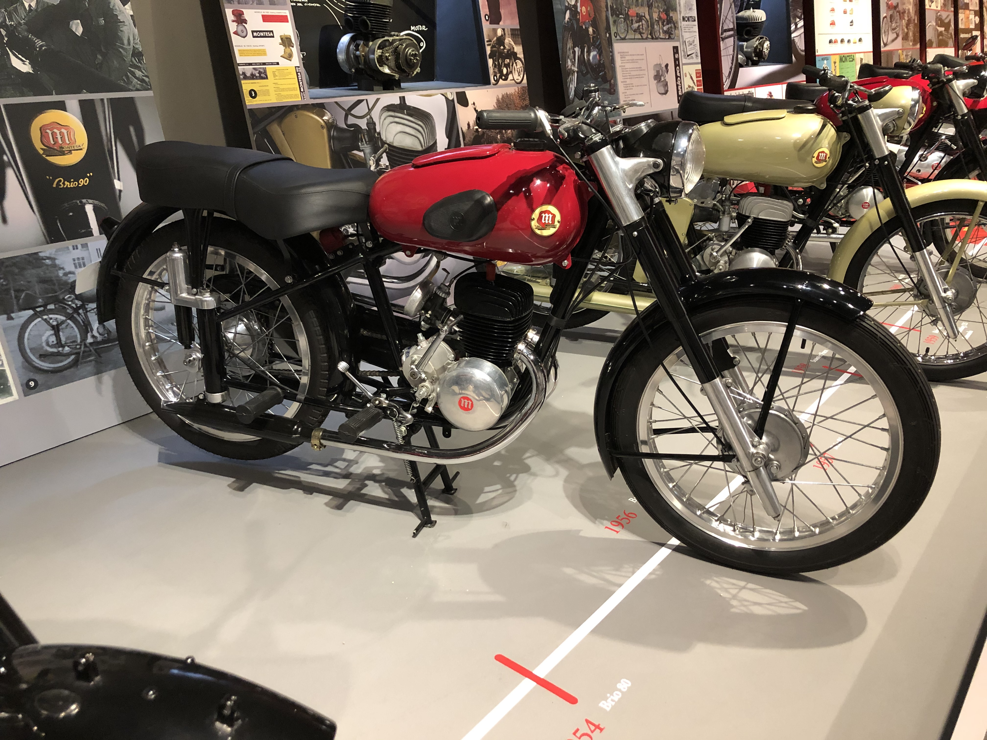 Montesa Brio 91 (1956), Mod. MB, 124.9 cc